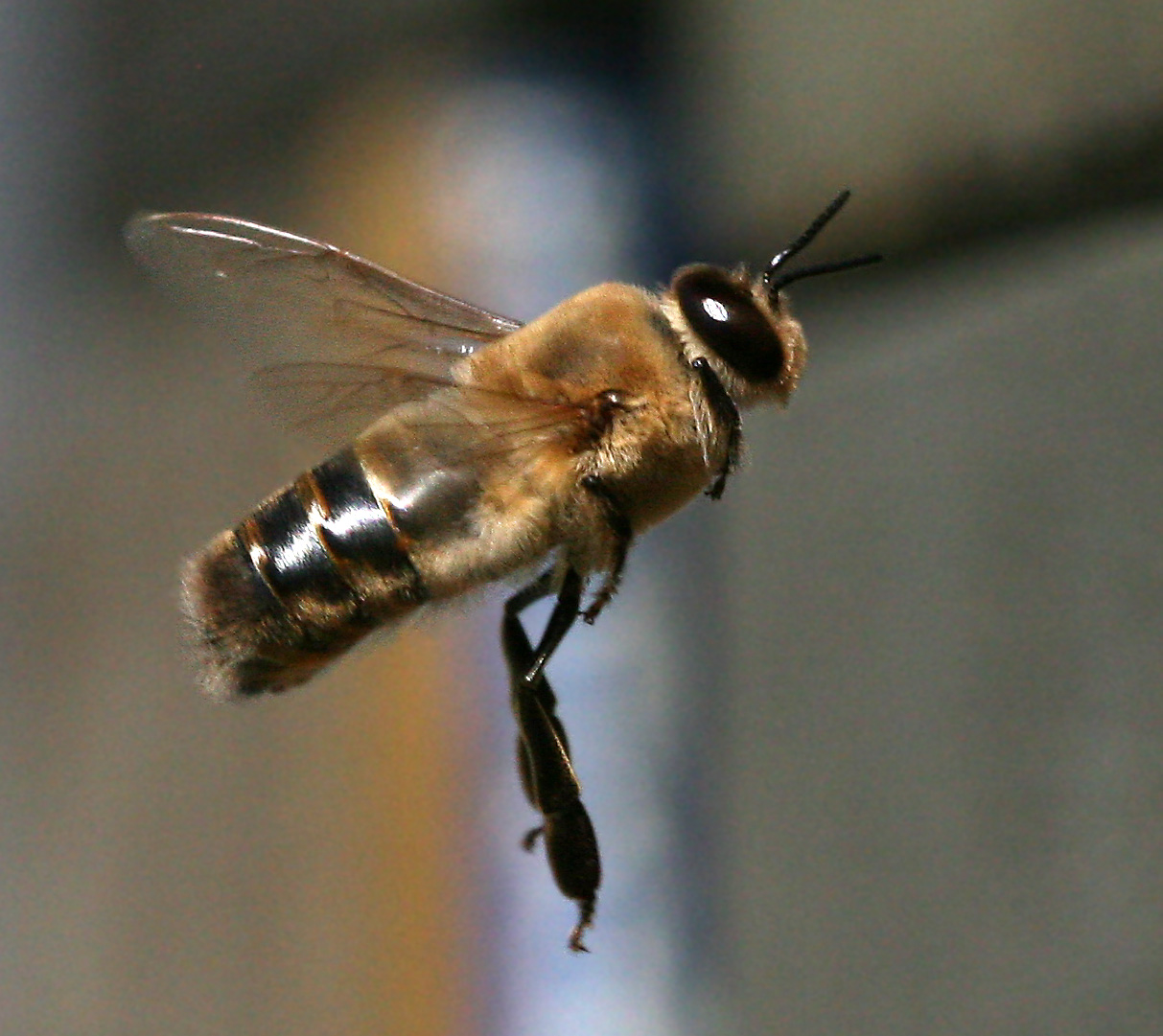 Drone of western honey bees in flight